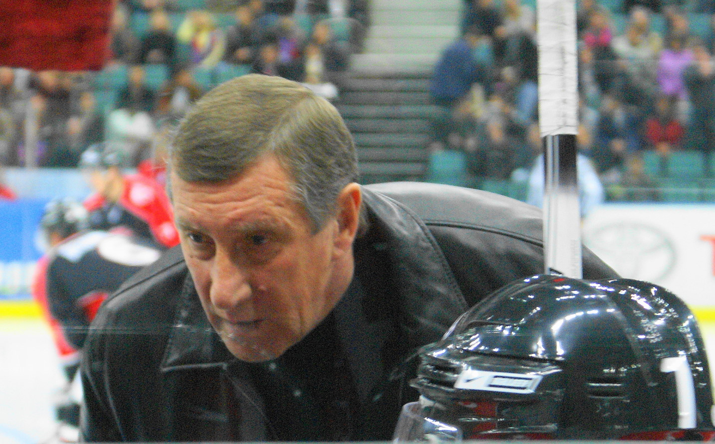 Valeriy Konstantinovitch Belousov, head coach of Avangard Omsk in Ice Palace, S.Petersburg, Russia